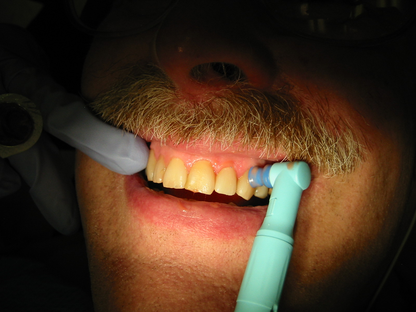 Tooth polishing Description: Dental hygienist polishing a patient's teeth during a periodic tooth cleaning. Viewpoint location: Seattle, Washington Date and time: 2006.01.18 10:48:09 PST Camera: Canon PowerShot S110 Photographer: Walter Siegmund ©2006 Walter Siegmund